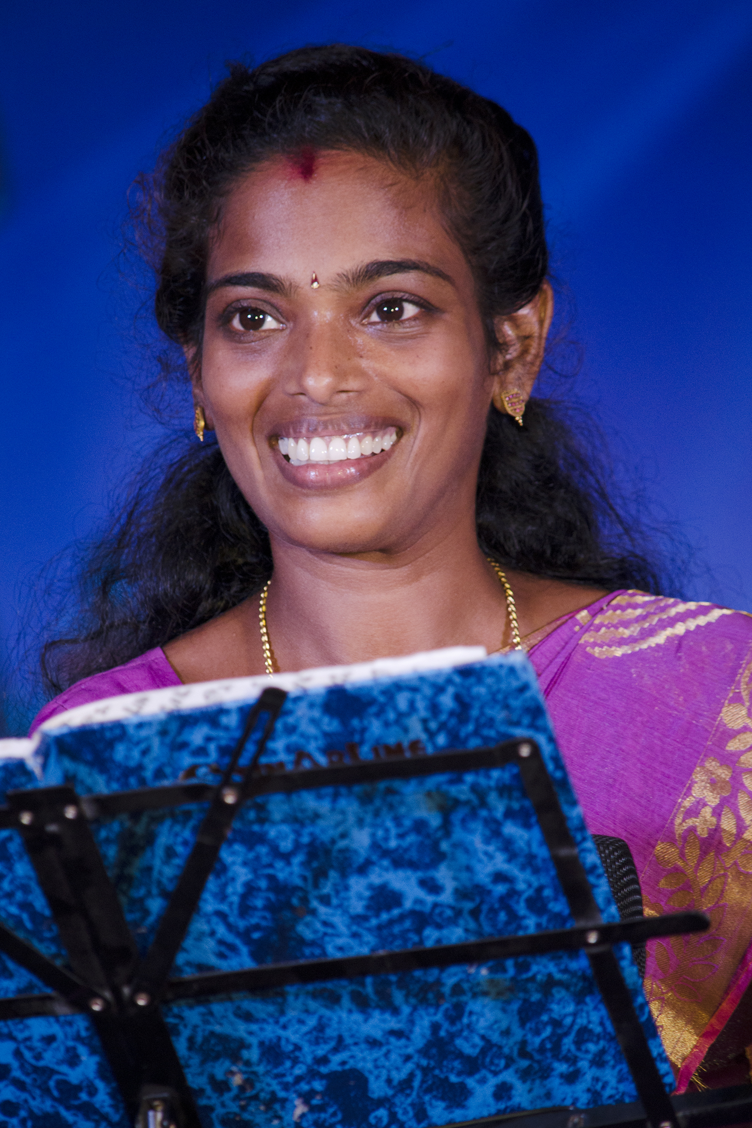 Chandralekha (singer)